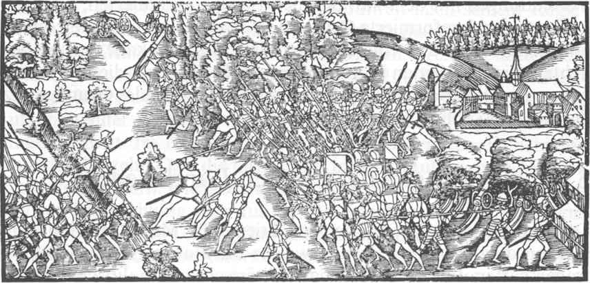 The battle of Kappel, October 11, 1531.